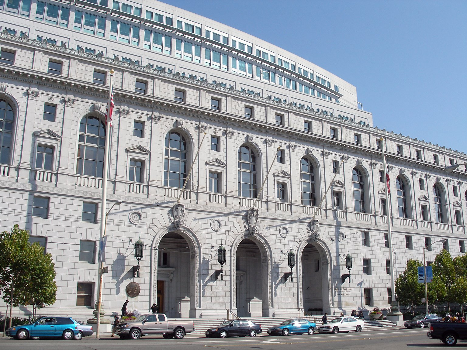 The Earl Warren Building and Courthouse (former California State Building) — at Civic Center Plaza in the San Francisco Civic Center, California. This building is home to the Supreme Court of California and the Court of Appeal for the First Appellate District. Credits Photographed by user Coolcaesar on August 31, en:2006.